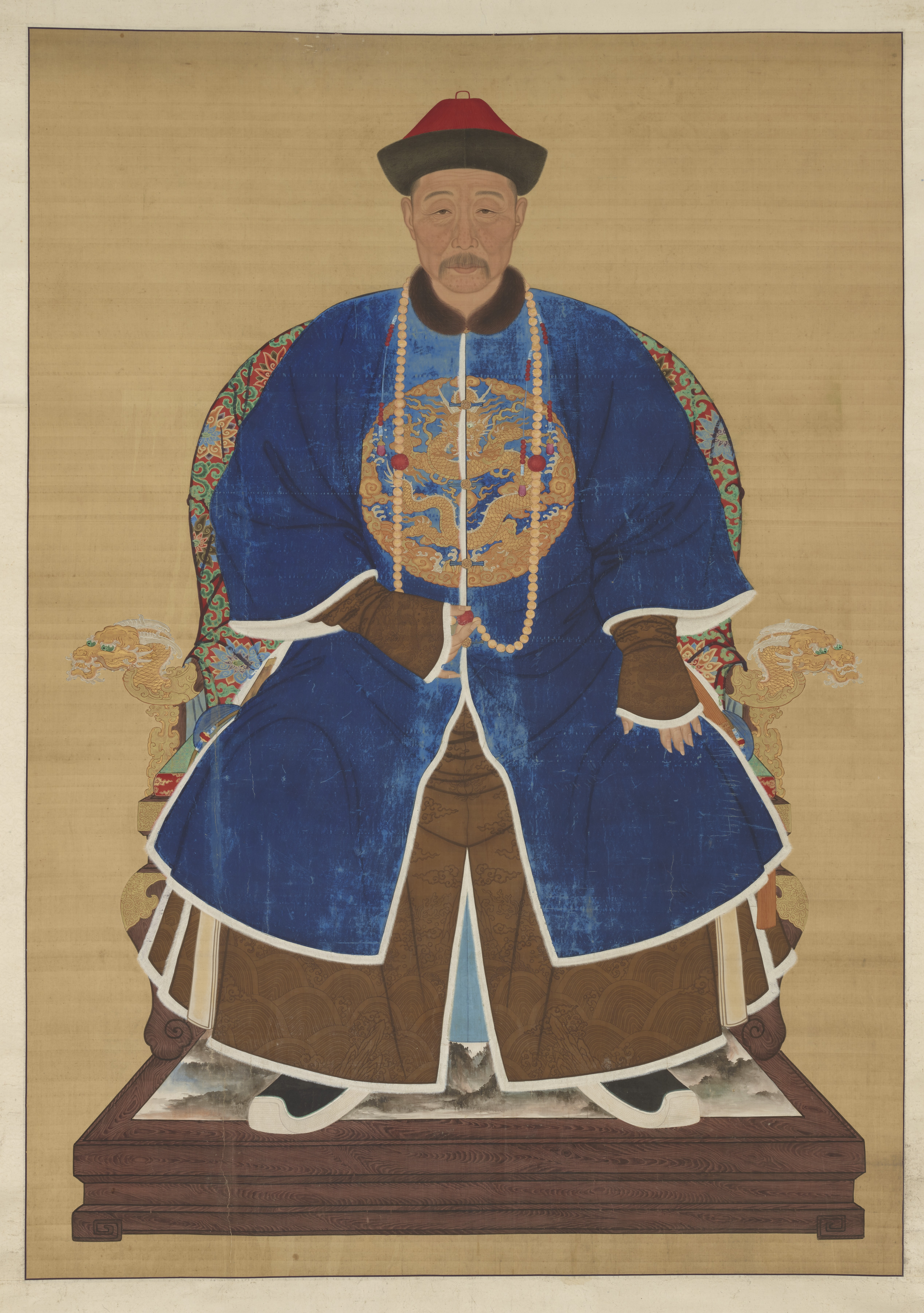 Purchase --Smithsonian Collections